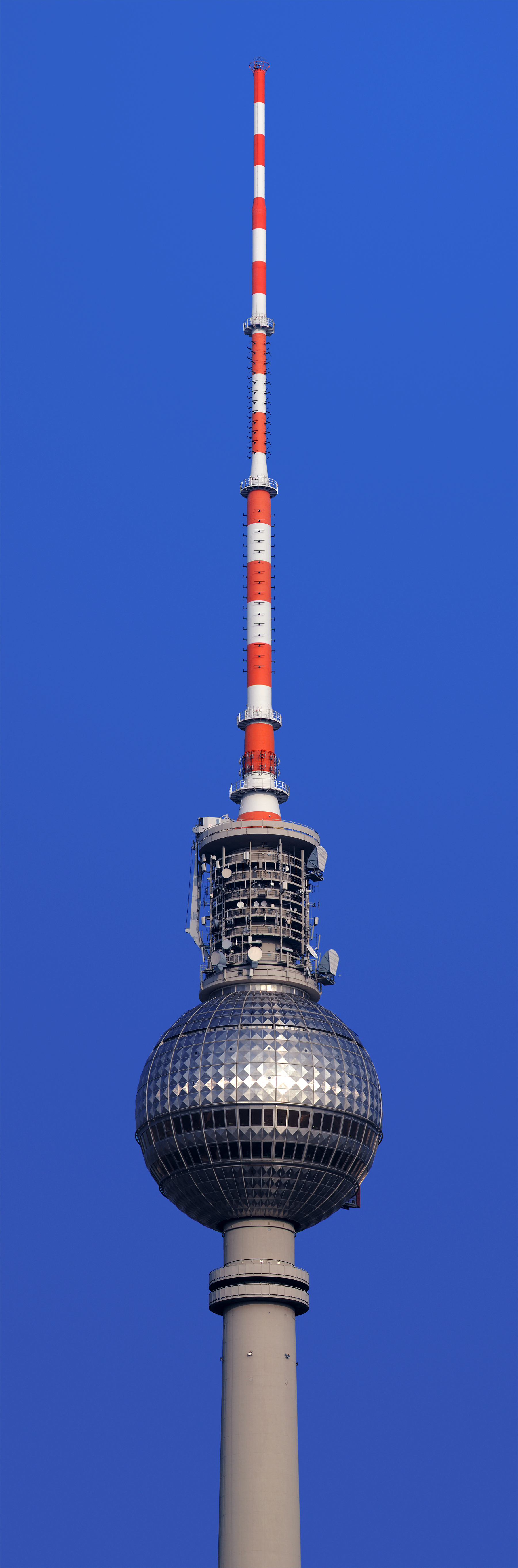 Detail shot of the Berlin television tower as seen from the roof of Berlin Cathedral. The picture is composed from six individual shots of originally ten megapixel resolution each.